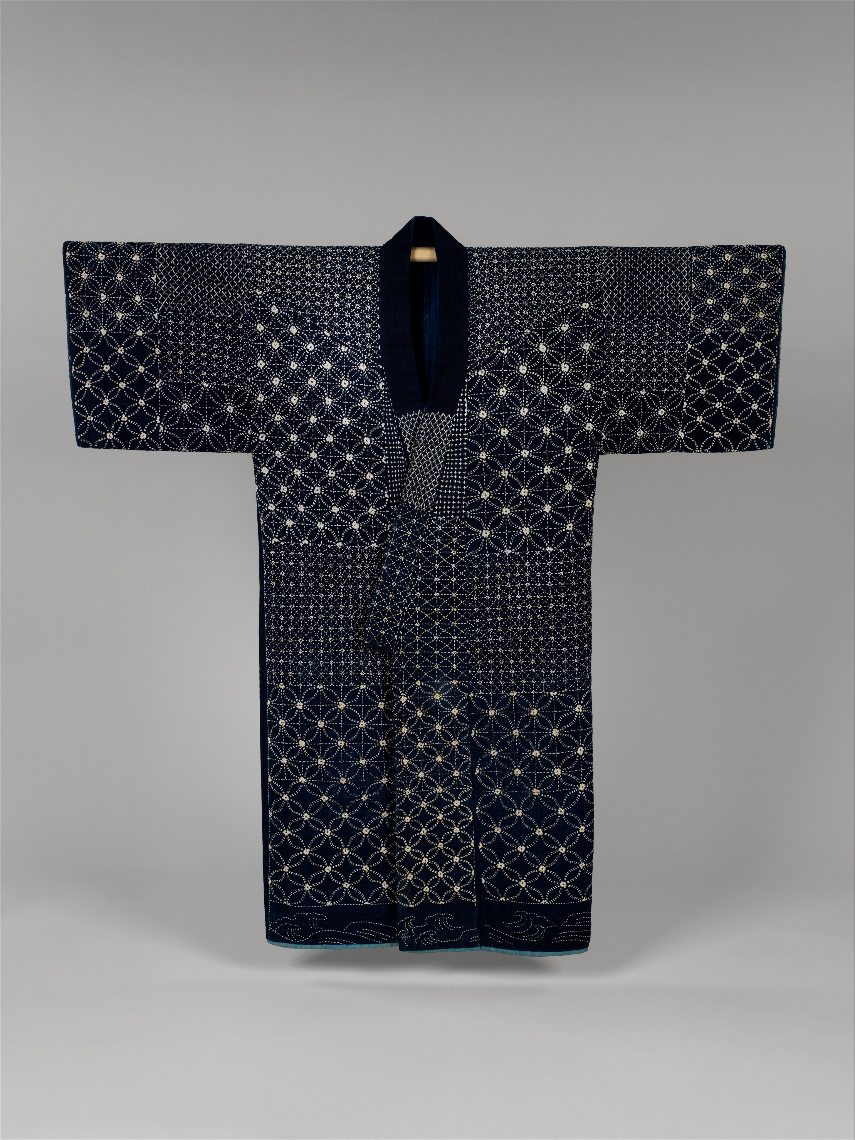 Japan; Jacket; Textiles-Costumes